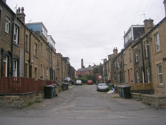 Brunswick Place - Clough Street